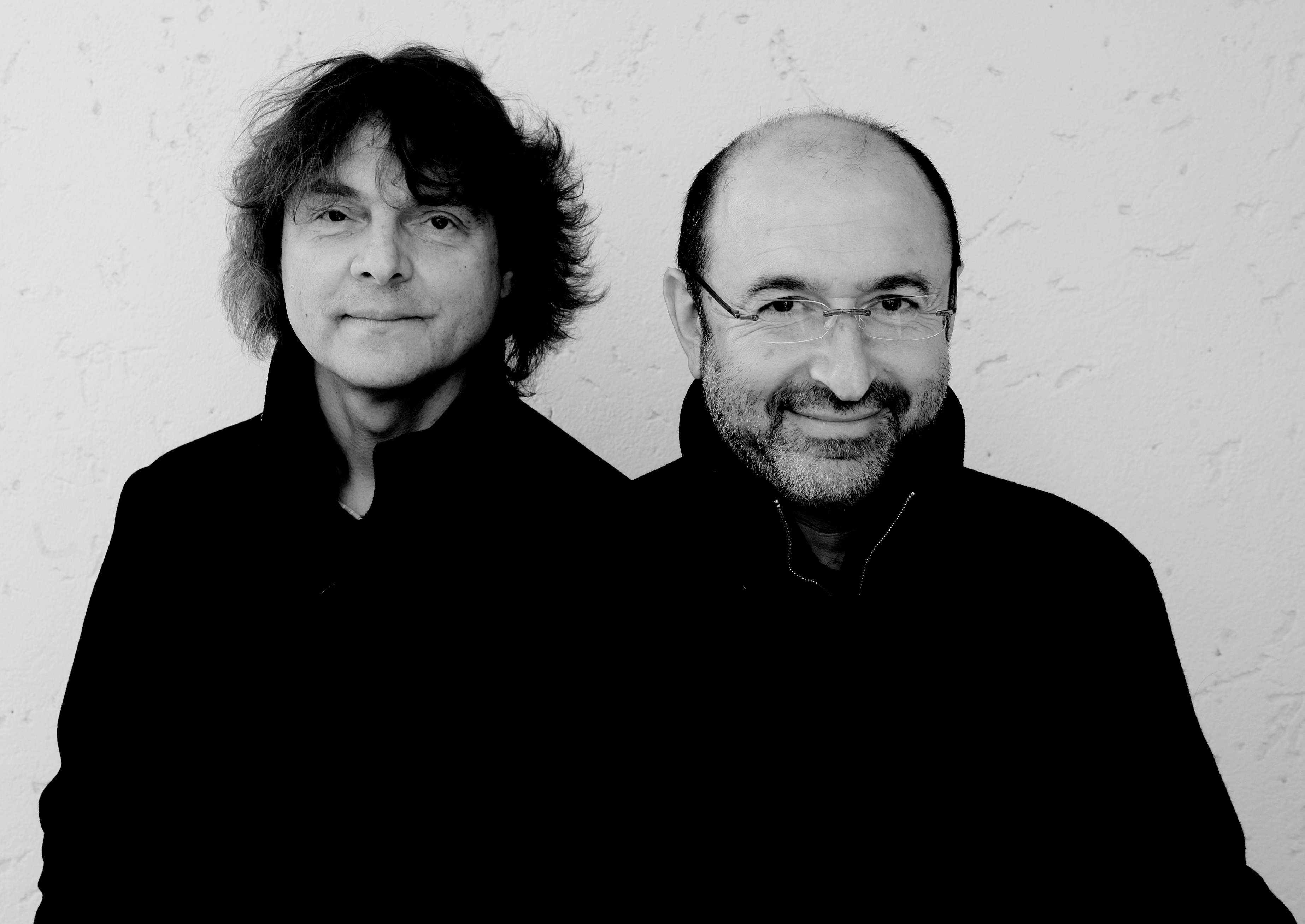 Arkadi Shilkloper and Mikhail Alperin